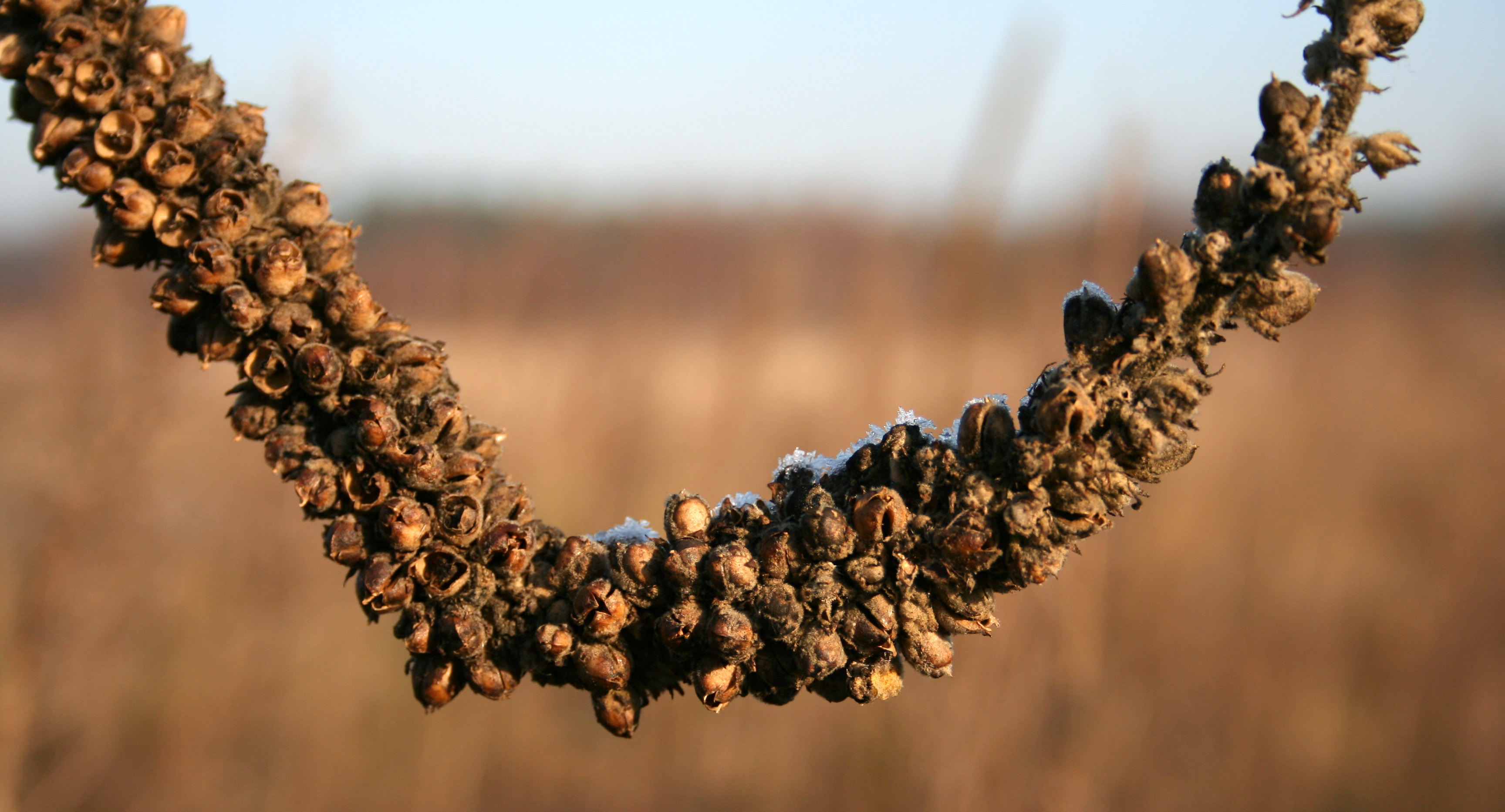 Mullein in winter